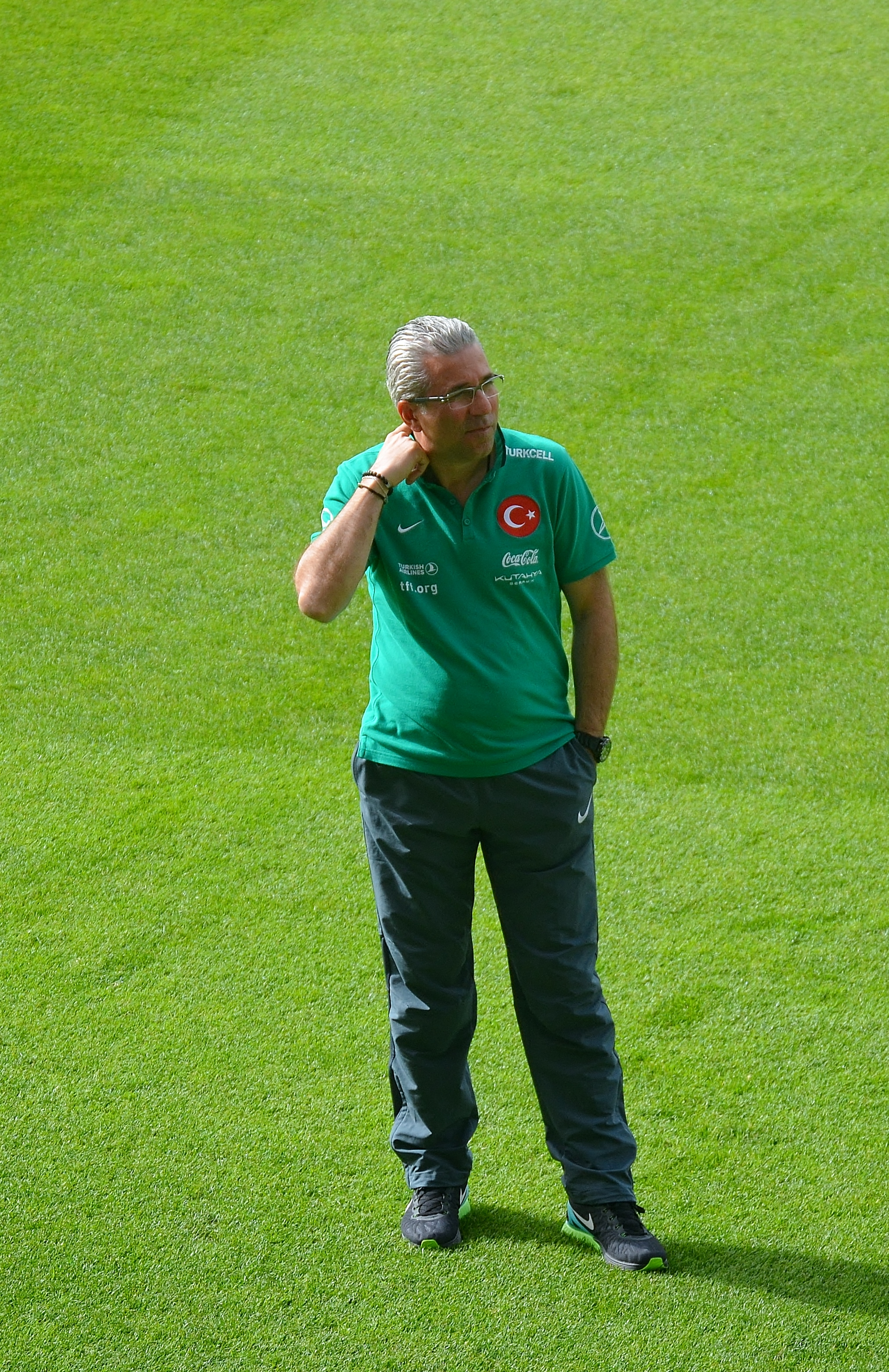 Talat Tuncel at the UEFA Women's Euro 2017 qualifying Group 5 match Turkey vs Germany in Istanbul, Turkey on April 8, 2016